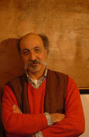 Emanuele Giordana